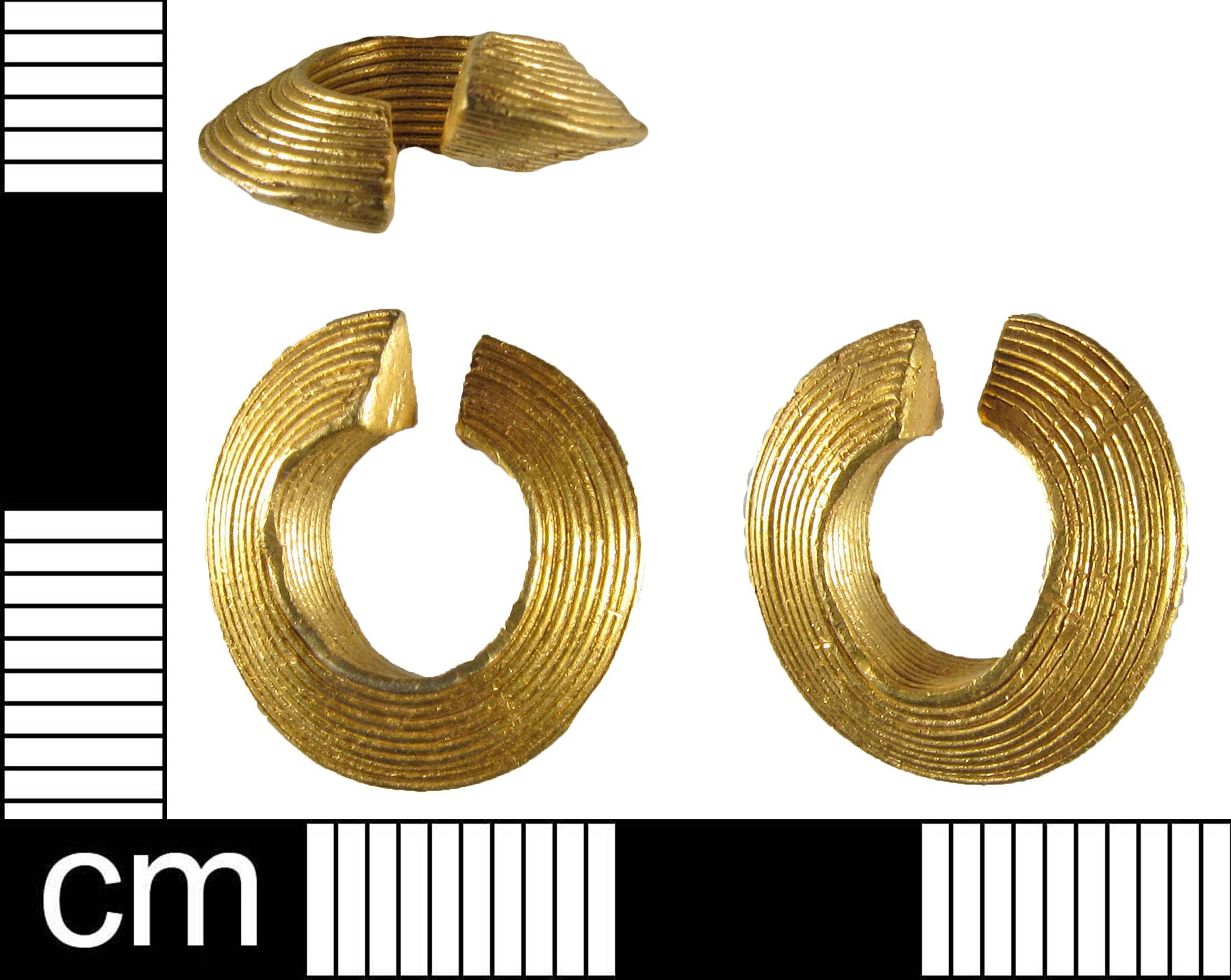 A gold penannular 'lock ring' of Bronze Age date (c. 1150 - 800 BC). The ring is triangular in section with flat terminals. The outer two faces of the object are decorated with a series of ribs, whilst the internal face is undecorated. Dimensions: outer diameter: 14.49 mm; inner diameter: 6.35 mm; thickness: 4.45 mm; weight: 4.12g. Gold plated copper alloy rings of a similar shape and style have been processed as Treasure (cf. 2009 T513). As this example is not damaged, exposing an inner core, it is difficult to say whether it is pure gold or gold plated. However, based on the weight of the object it is unlikely to be pure gold throughout.